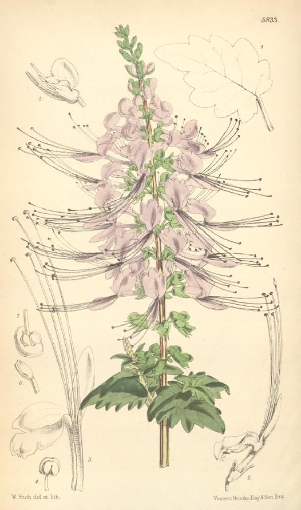 Illustration of Orthosiphon stamineus